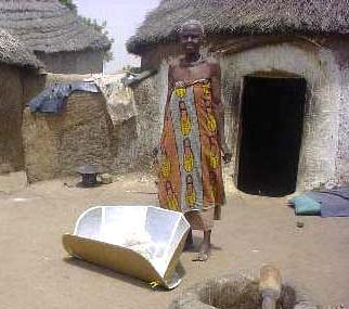 Villagers like this woman in Zouzugu, Ghana, prevent dracunculiasis and other waterborne diseases by pasteurizing water in a solar cooker.